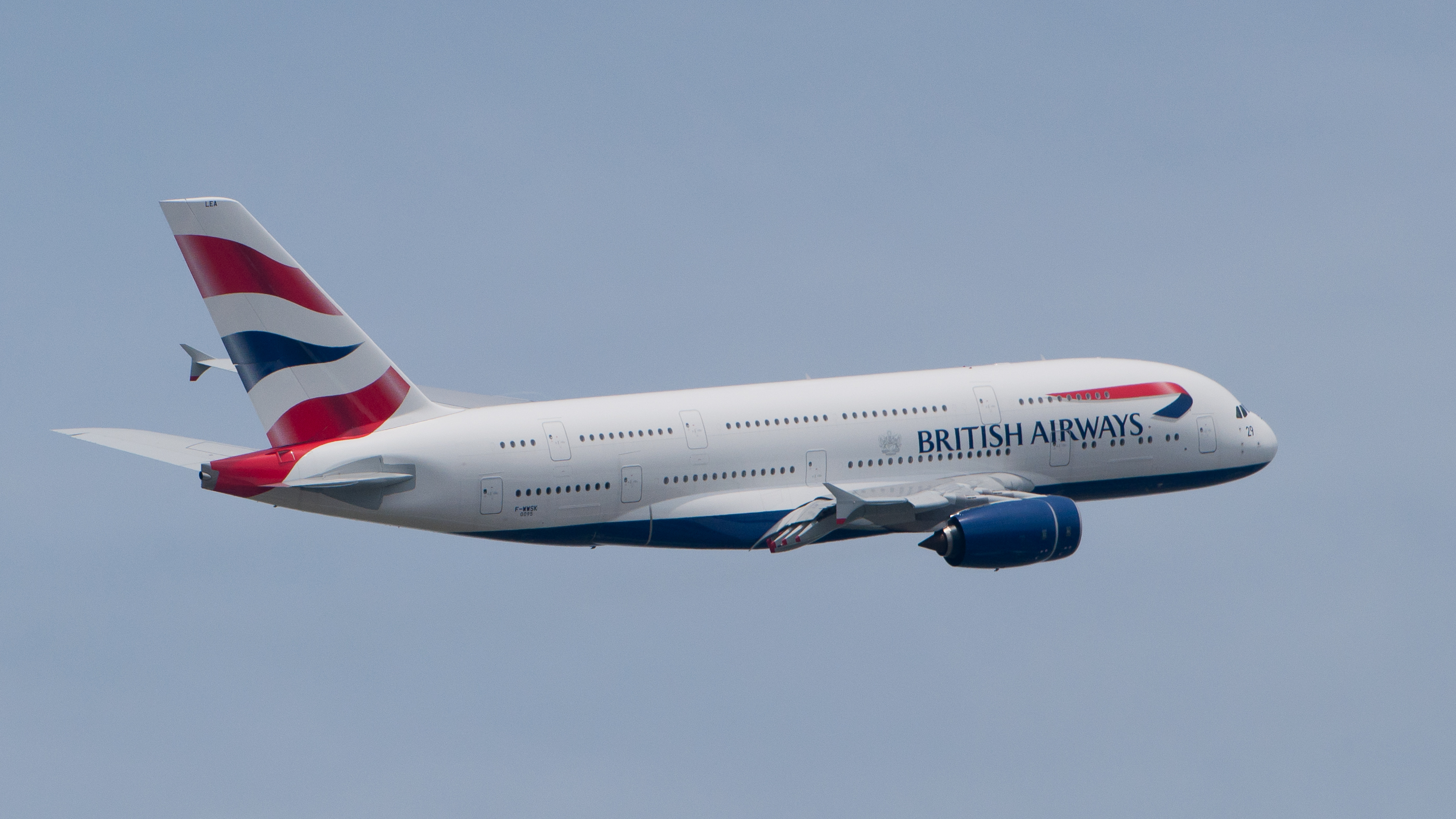 British Airways Airbus A380-841 (reg. F-WWSK, c/n 095, normally G-XLEA) flying at Paris Air Show 2013.